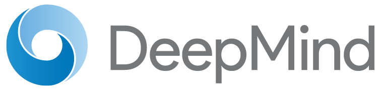 The Official Logo Of DeepMind Technologies Limited